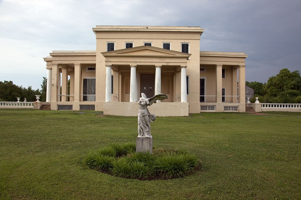 Gaineswood, a plantation house in Demopolis, Alabama.)